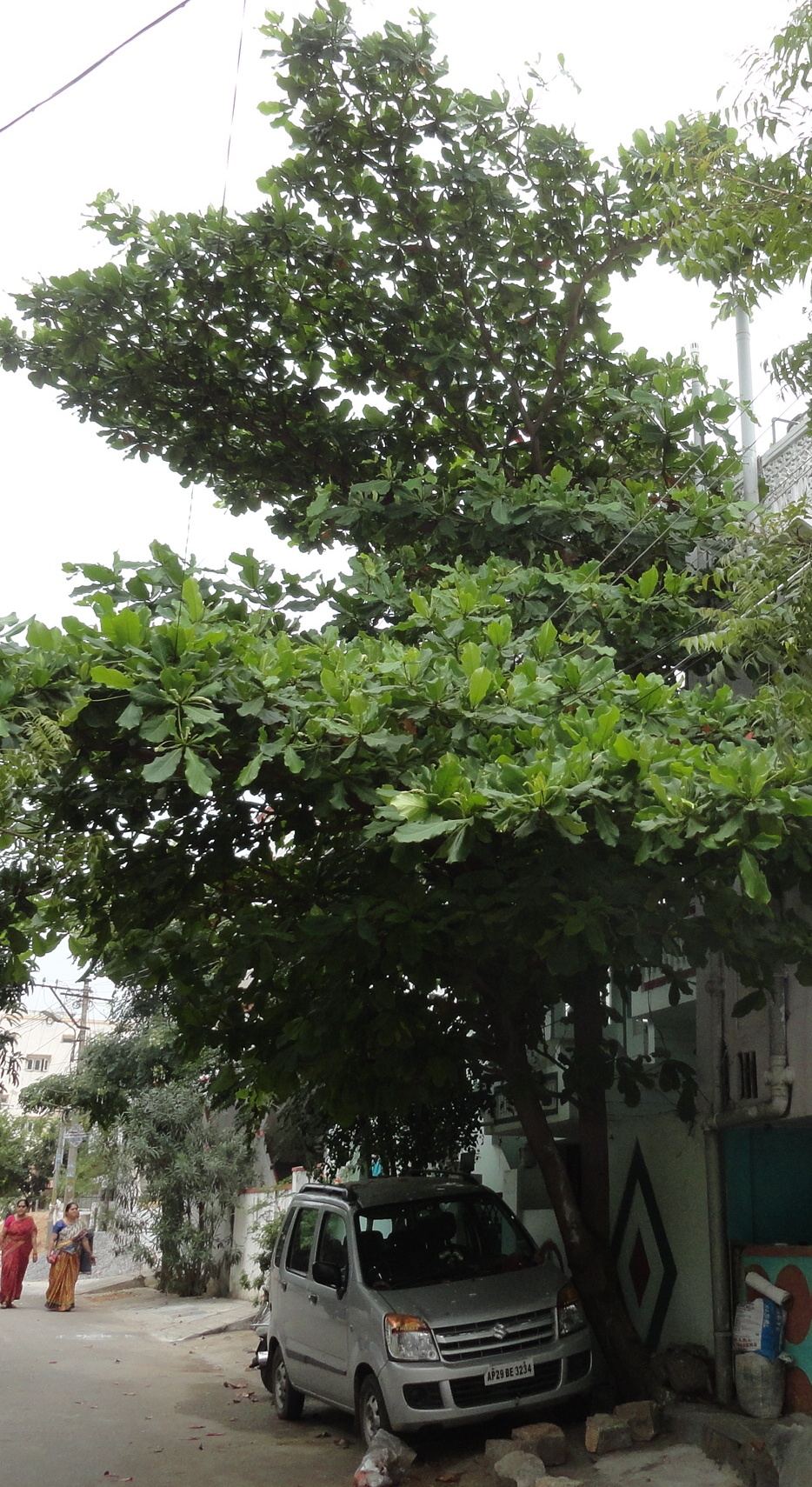 బాదము చెట్టు